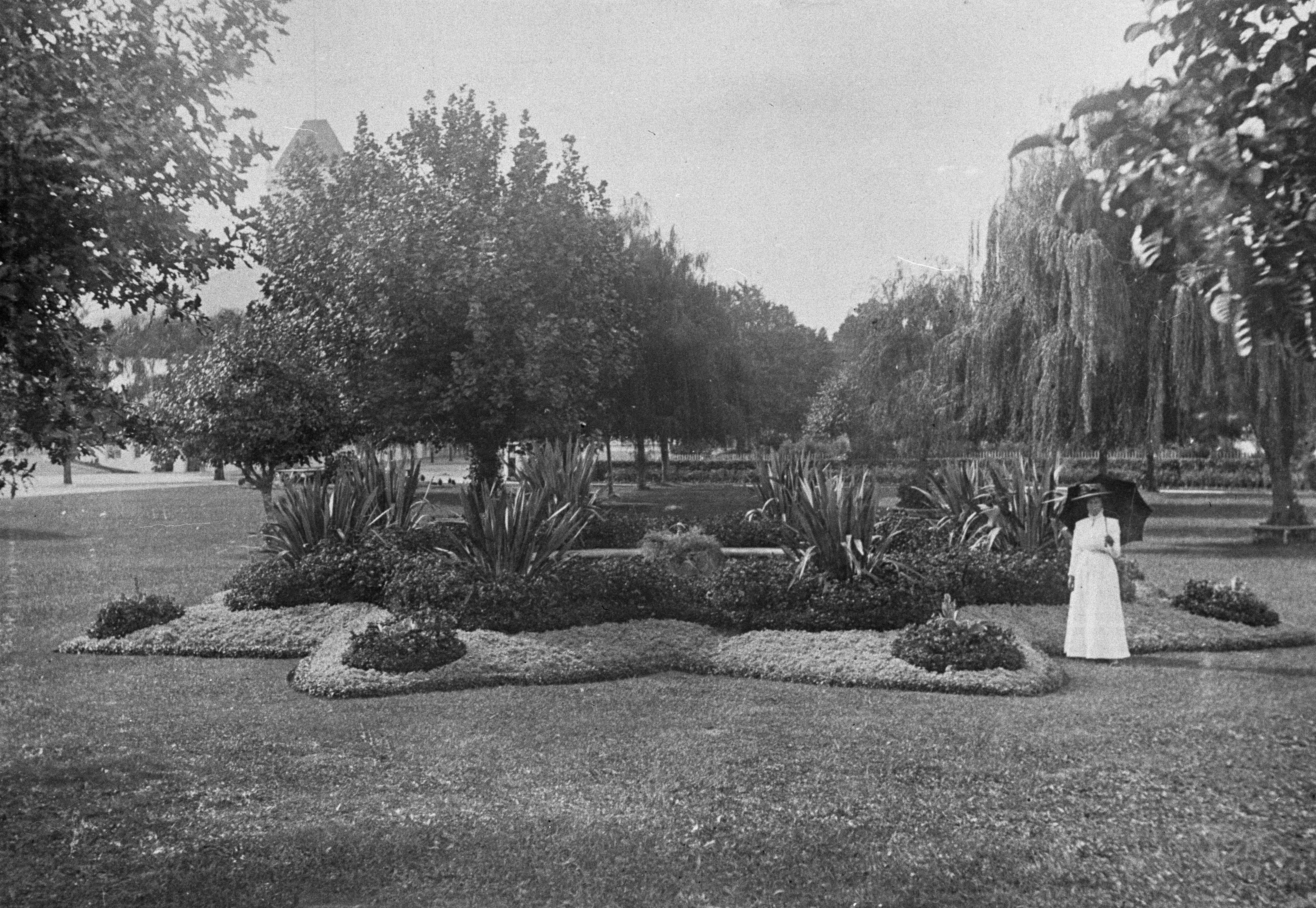 Grounds at Ellerslie Racecourse, with formal gardens in the foreground, and trees and lawns in the background. The photographer's wife, Laura Godber, is wearing a full-length dress and formal hat, and carries a parasol. She is standing beside a bed with flax and low shrubs. Photographed by Albert Percy Godber, circa 1910. This film copy negative is taken from the print in the Godber Album Vol 110, p 63 (PA1-q-103)